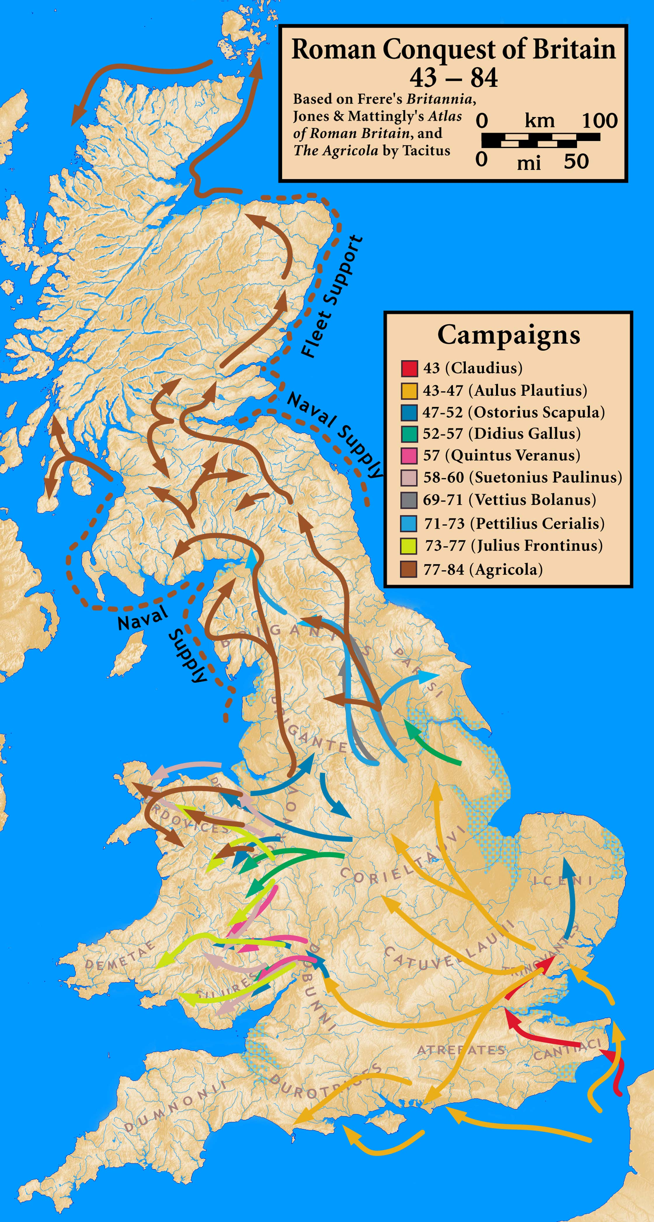 Campaigns in the Roman Conquest of Britain, 43 — 84